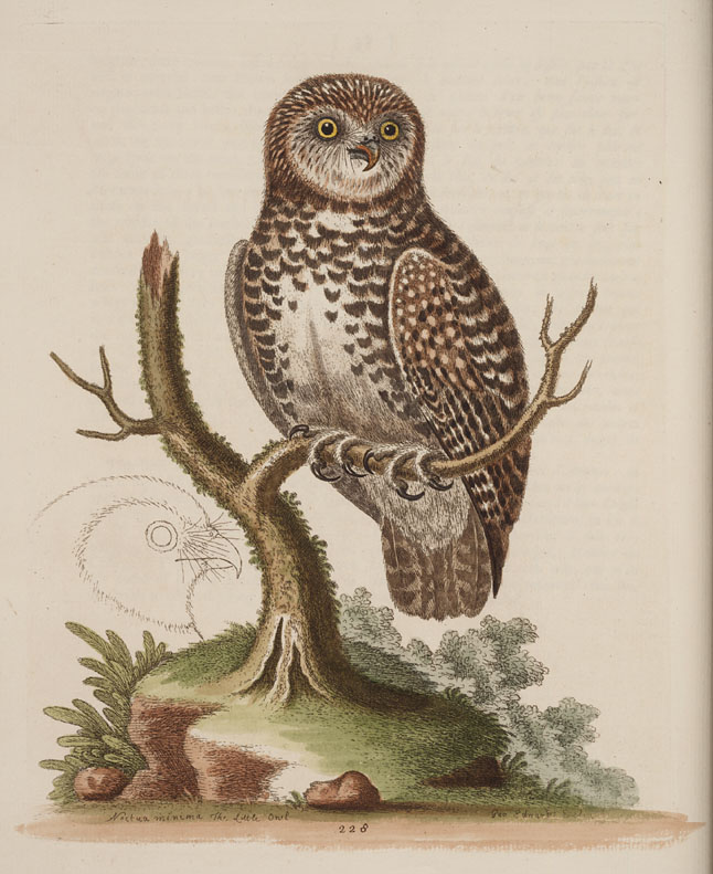 Engraving Noctua minima, the Little Owl